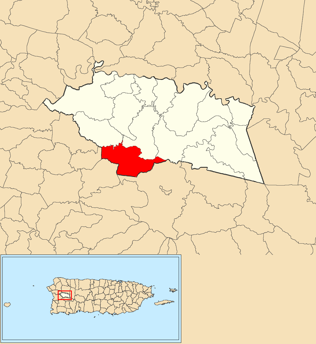 Naranjales, Las Marías, Puerto Rico locator map